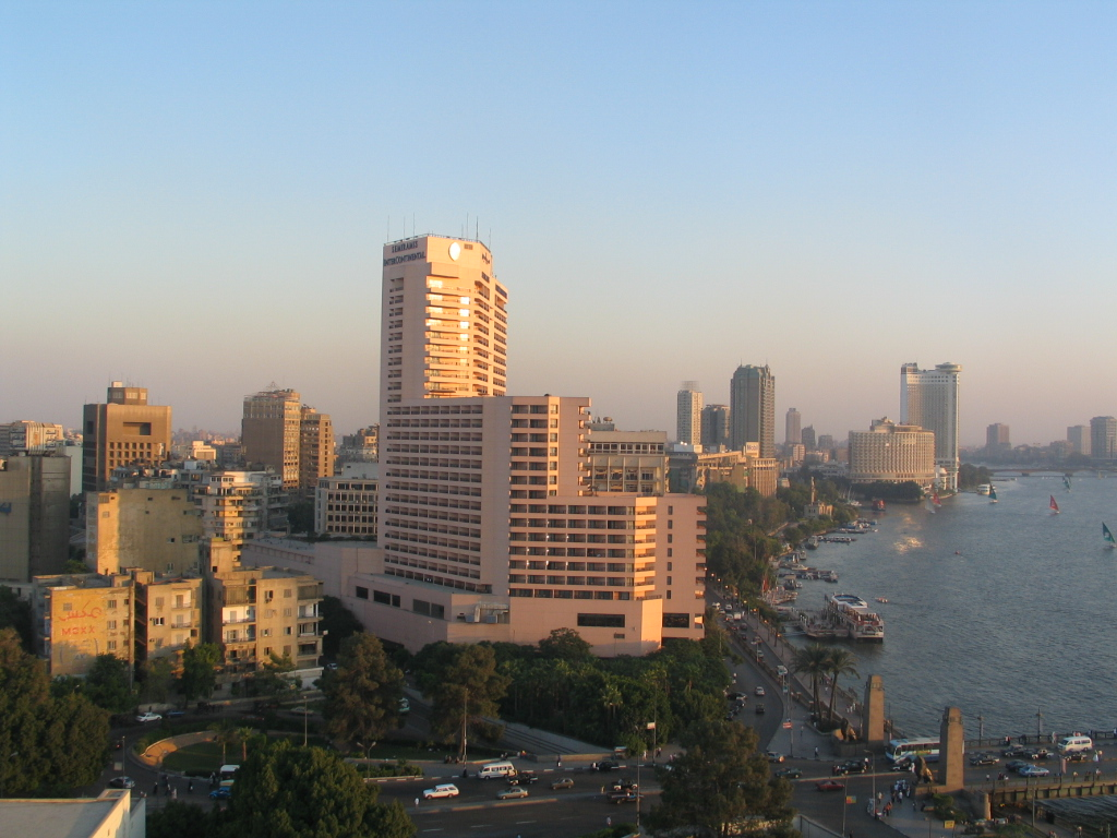 Sunset over Nile and Cairo